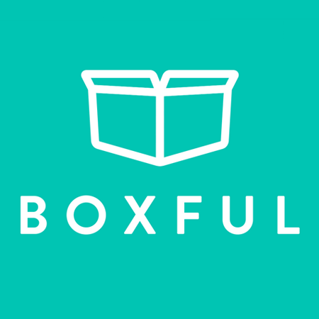 Company Logo